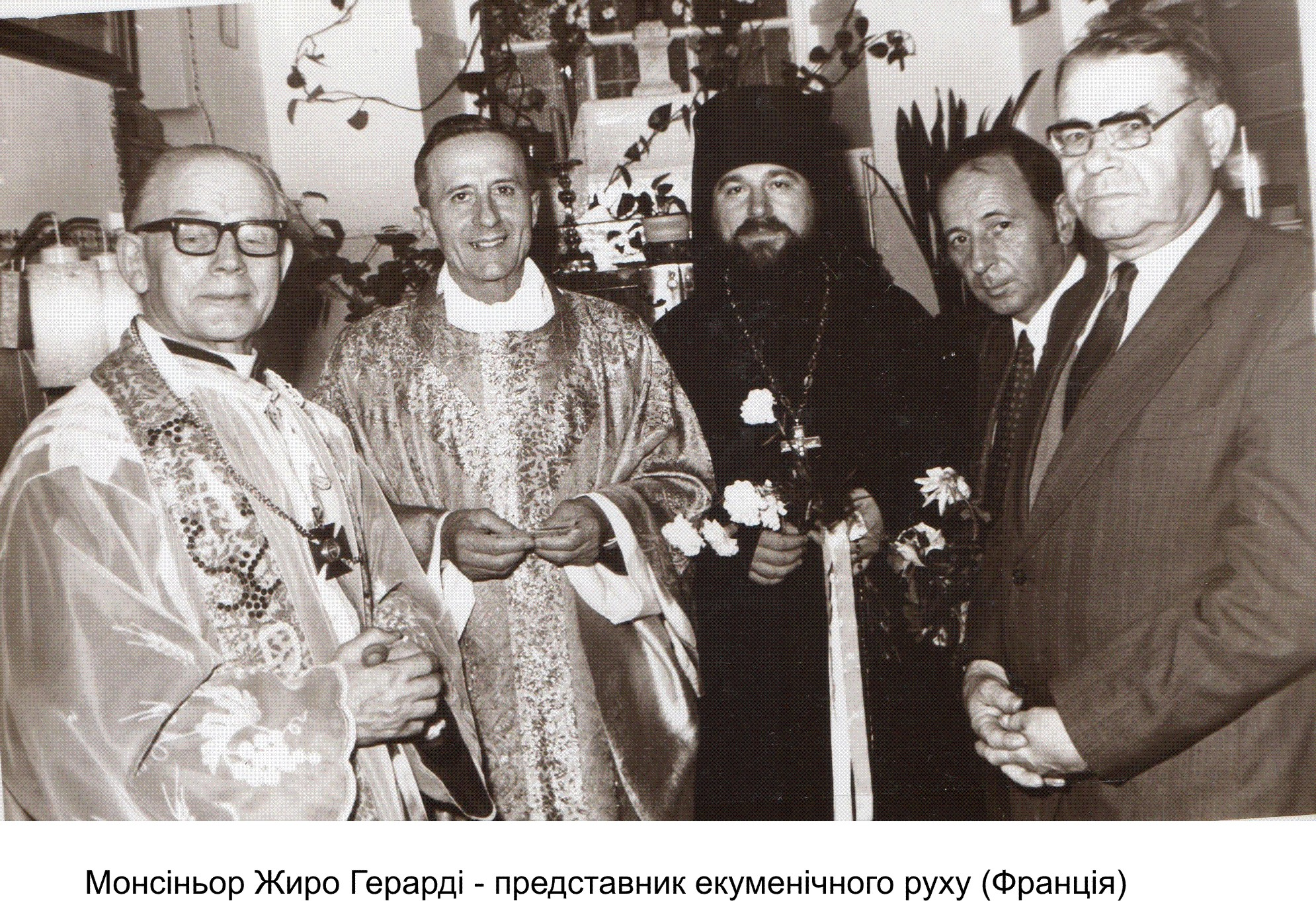 Ecumenical meeting in Fr. Tadeusz Hoppe's apartment in Odessa.